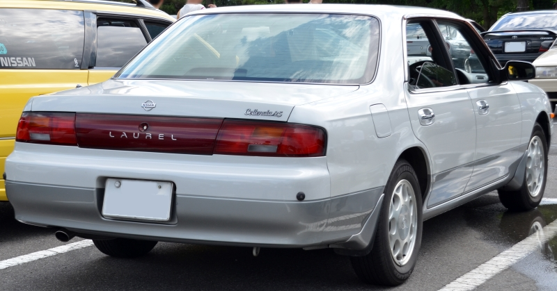 Nissan Laurel 25Medalist Cellencia